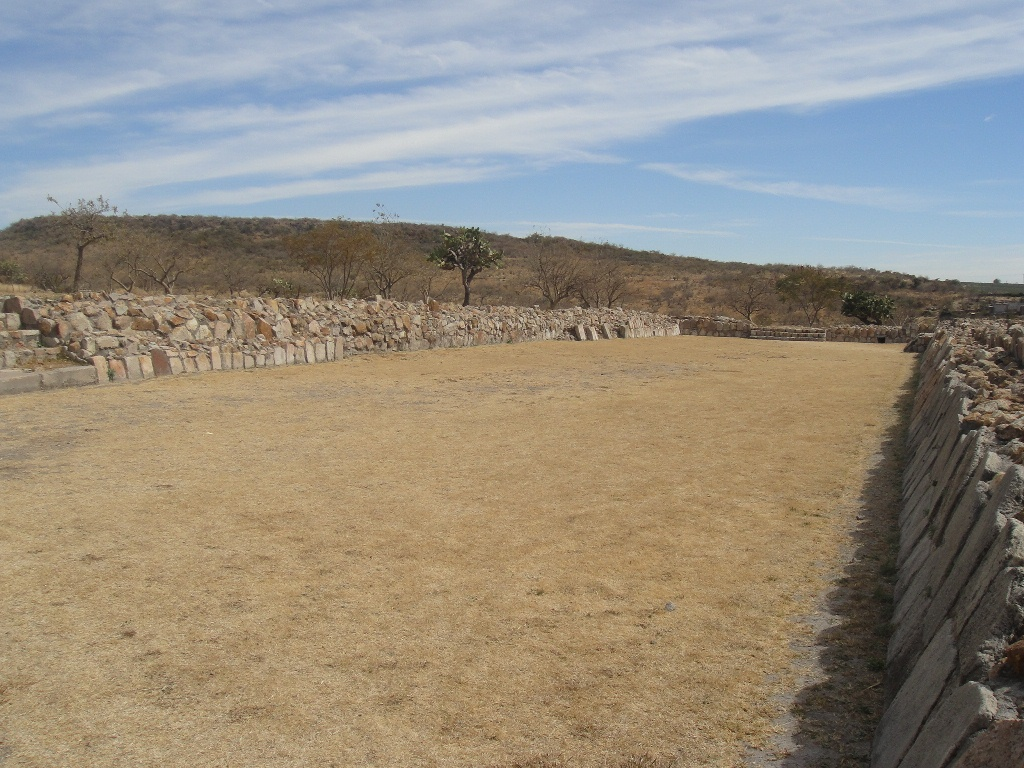 Template:Plazuelas, north basement